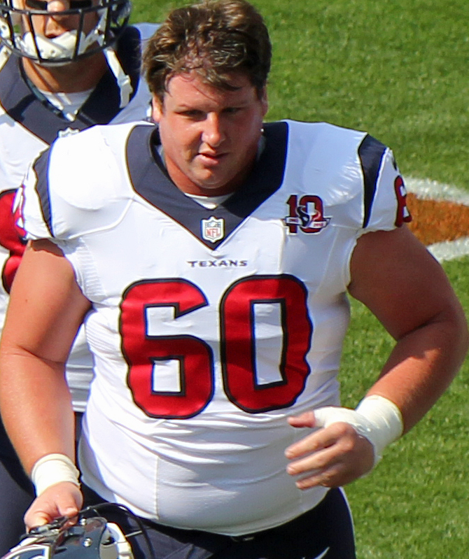 Ben Jones, a player on the National Football League.